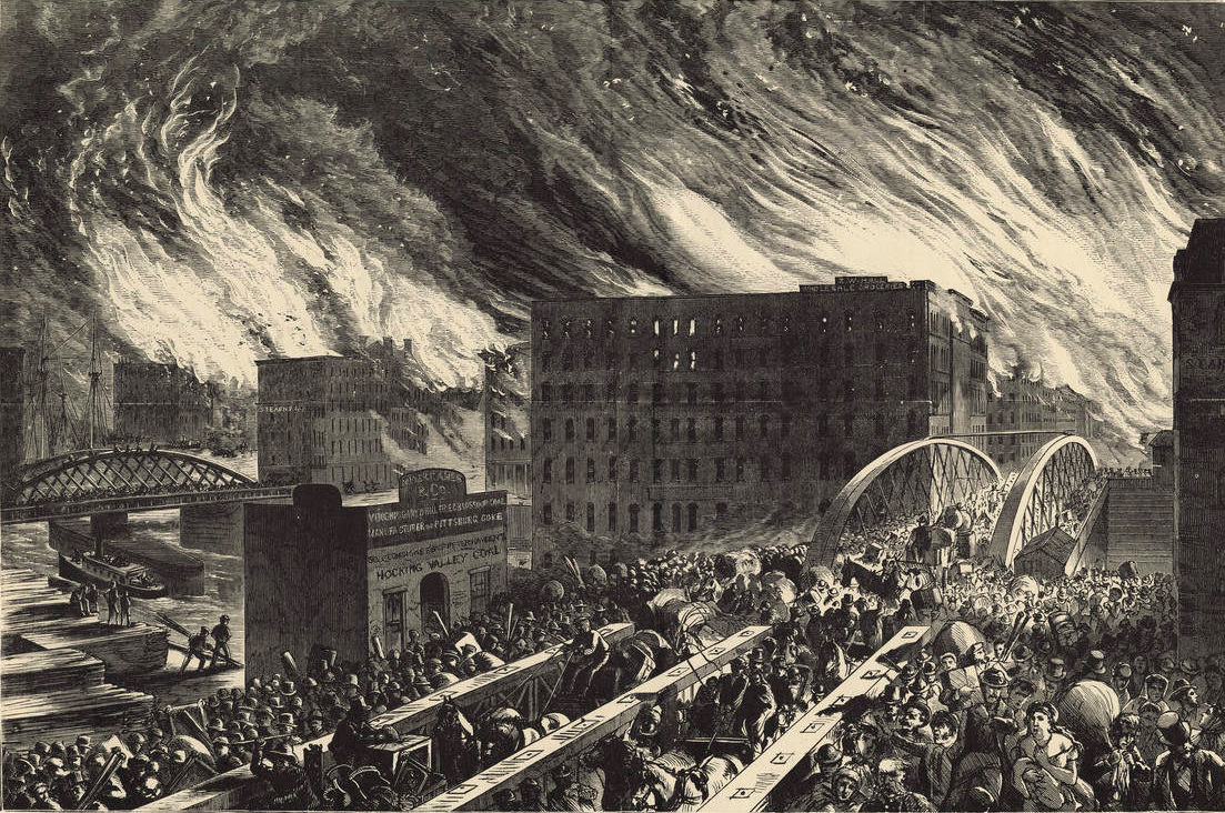 The Great Chicago Fire, an artists rendering, Chicago in Flames -- The Rush for Lives Over Randolph Street Bridge